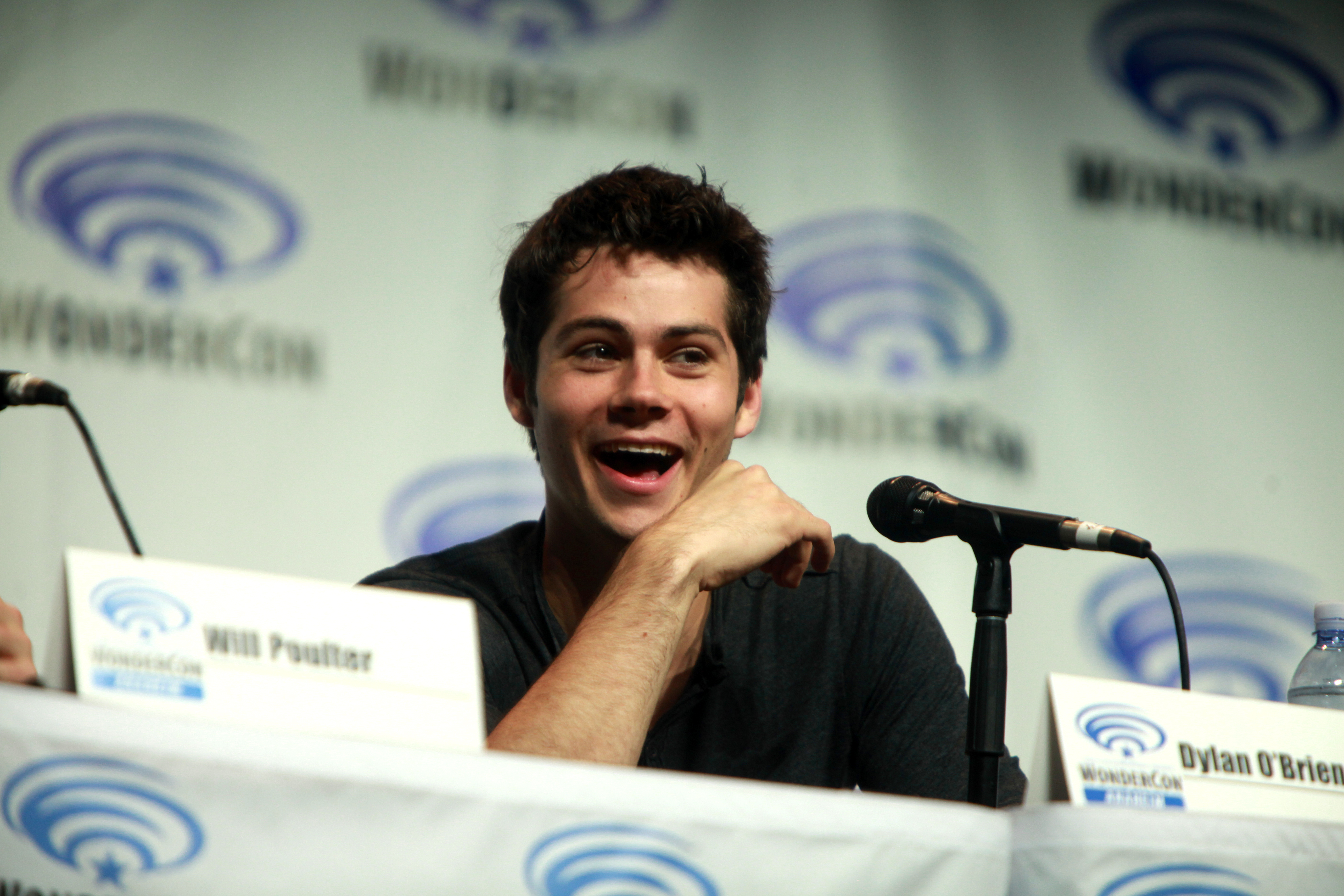 Dylan O'Brien speaking at the 2014 WonderCon, for "The Maze Runner", at the Anaheim Convention Center in Anaheim, California.